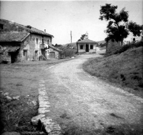 Ibañarrieta